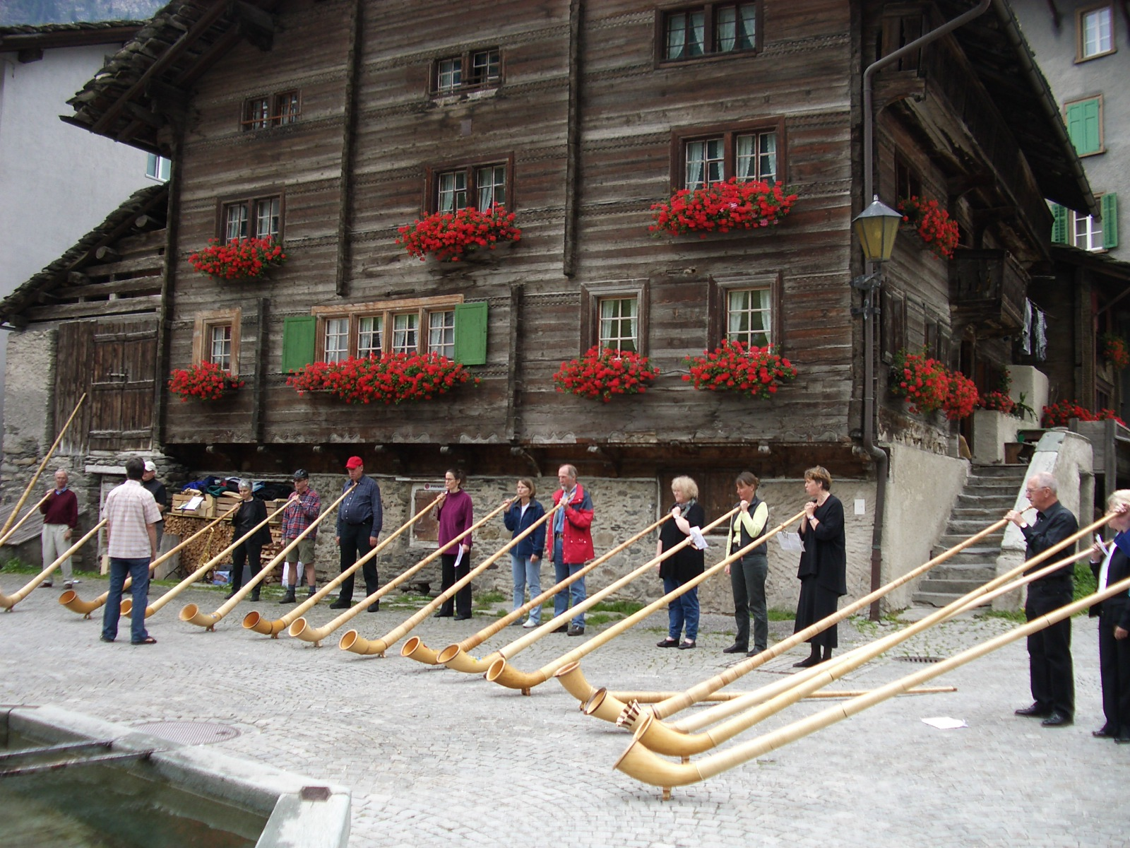 Alphorn players in Vals GR, Switzerland